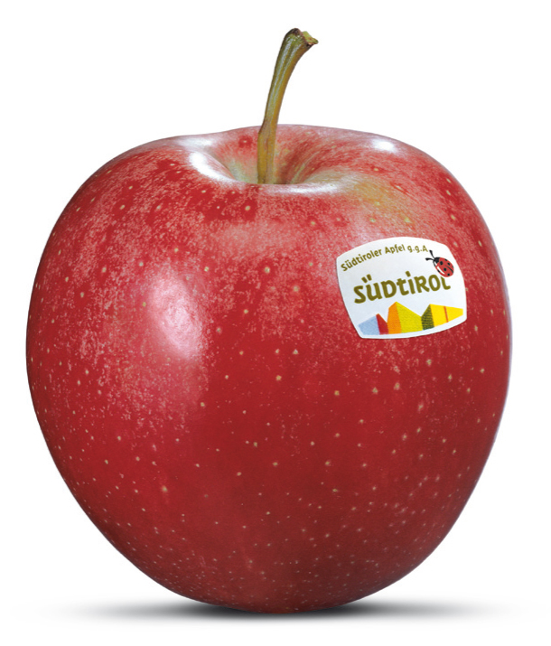 Gala apple from South Tirol with "EU protected indication of geographical origin" mark